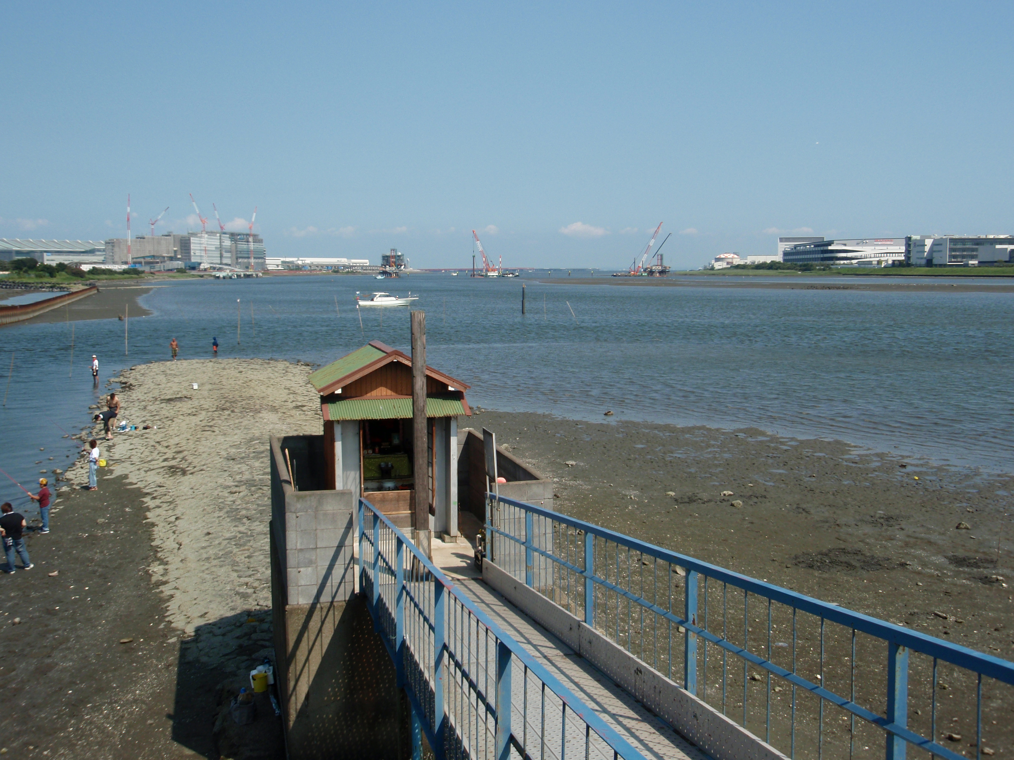 low tide at Gojukken-bana, Tama River, Haneda, Ōta Ward, Tokyo